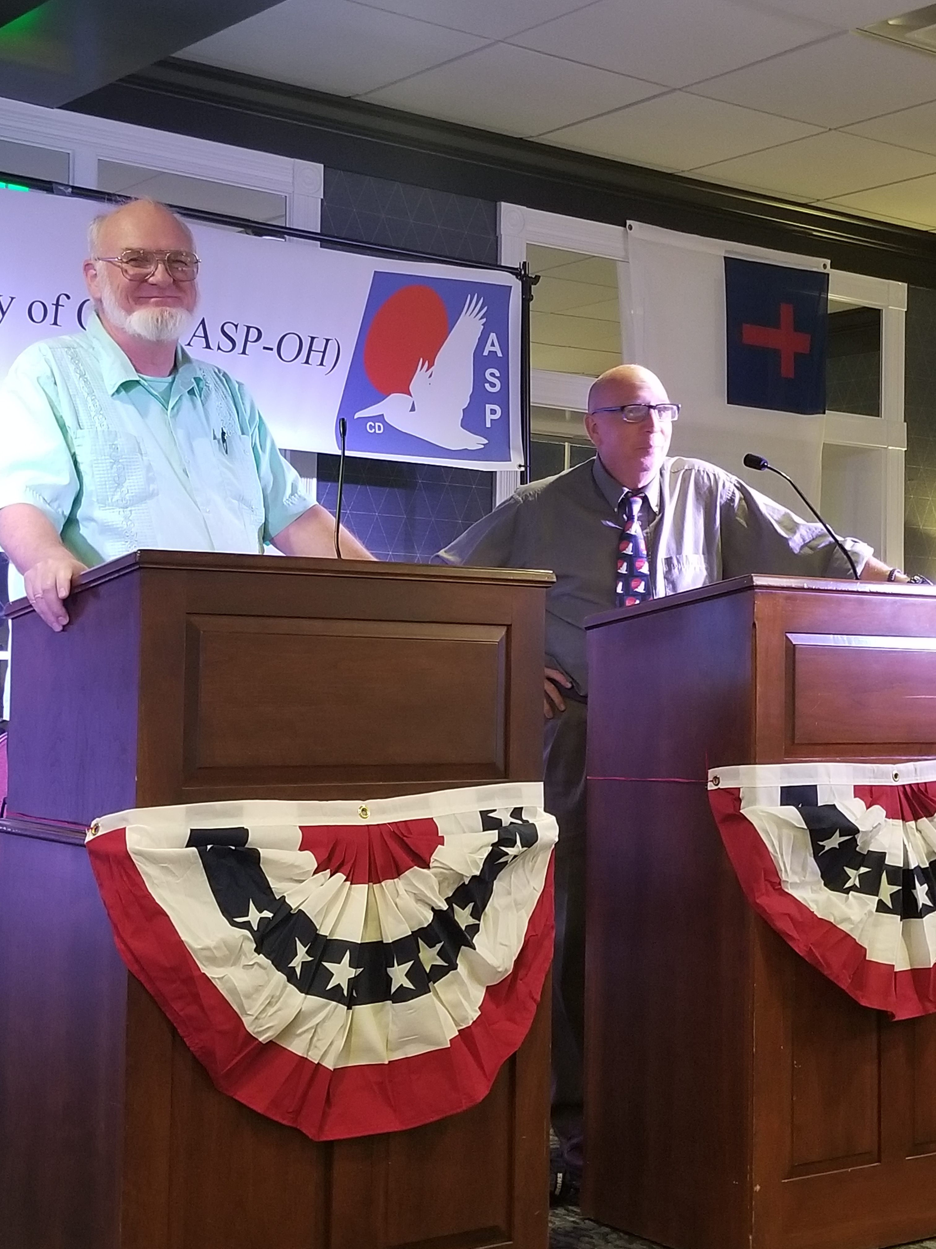 Photo of Brian Carroll and Joe Schriner at the 2019 ASP Midwestern Regional Meeting at the Carlisle Inn of Walnut Creek